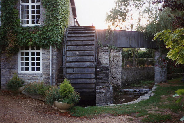 Long Sutton: Knole Mill This watermill apparently only functioned from about 1872 to 1883. It was built for the Duke of Devonshire estate and replaced a mill on a late medieval site higher upstream. The high breastshot waterwheel is 15’ diameter by 5’ width and was cast by ‘The Somerset Wheel & Wagon Co, Engineers & Millwrights, Martock’